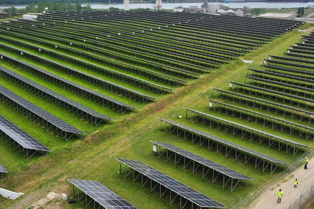 Biggest Solar Park of the Benelux, DEME